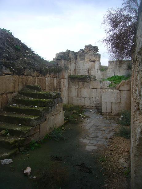 Khan Minya in Israel